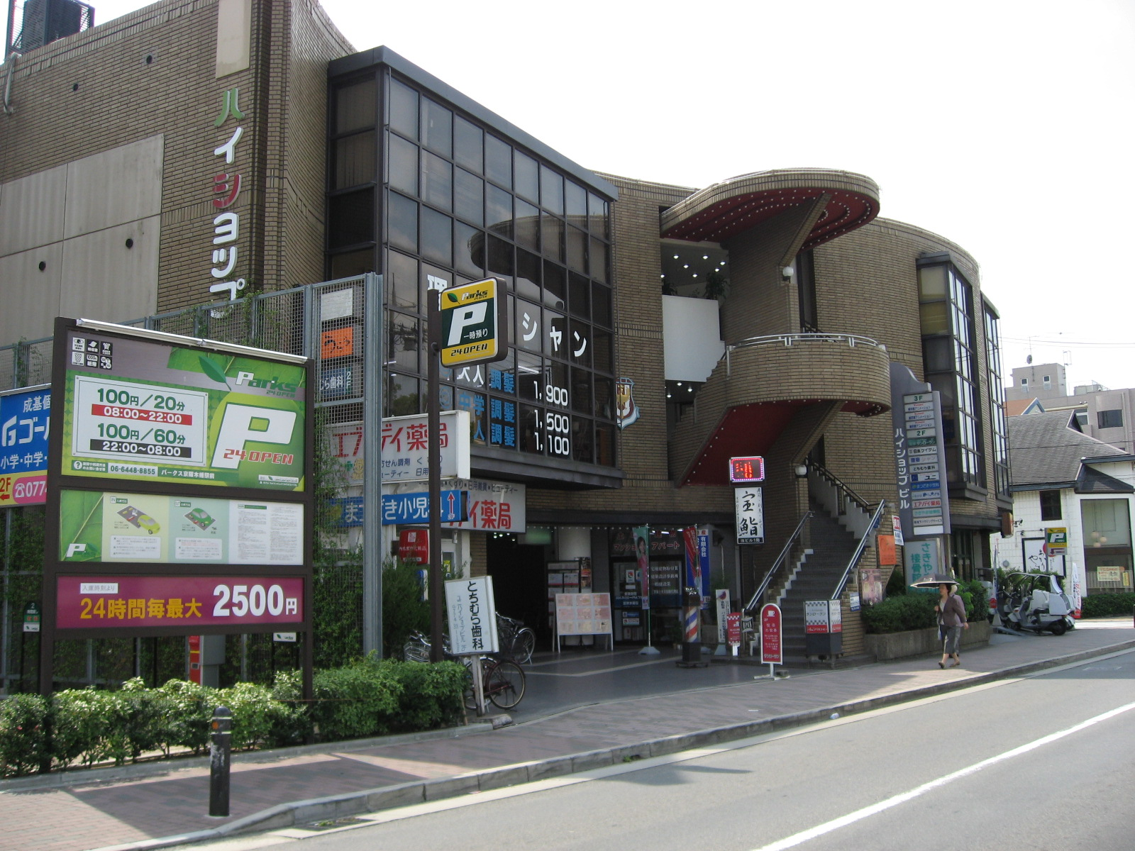 Kyoto Animation Studio 2. (Uji city, Kyoto, Japan)